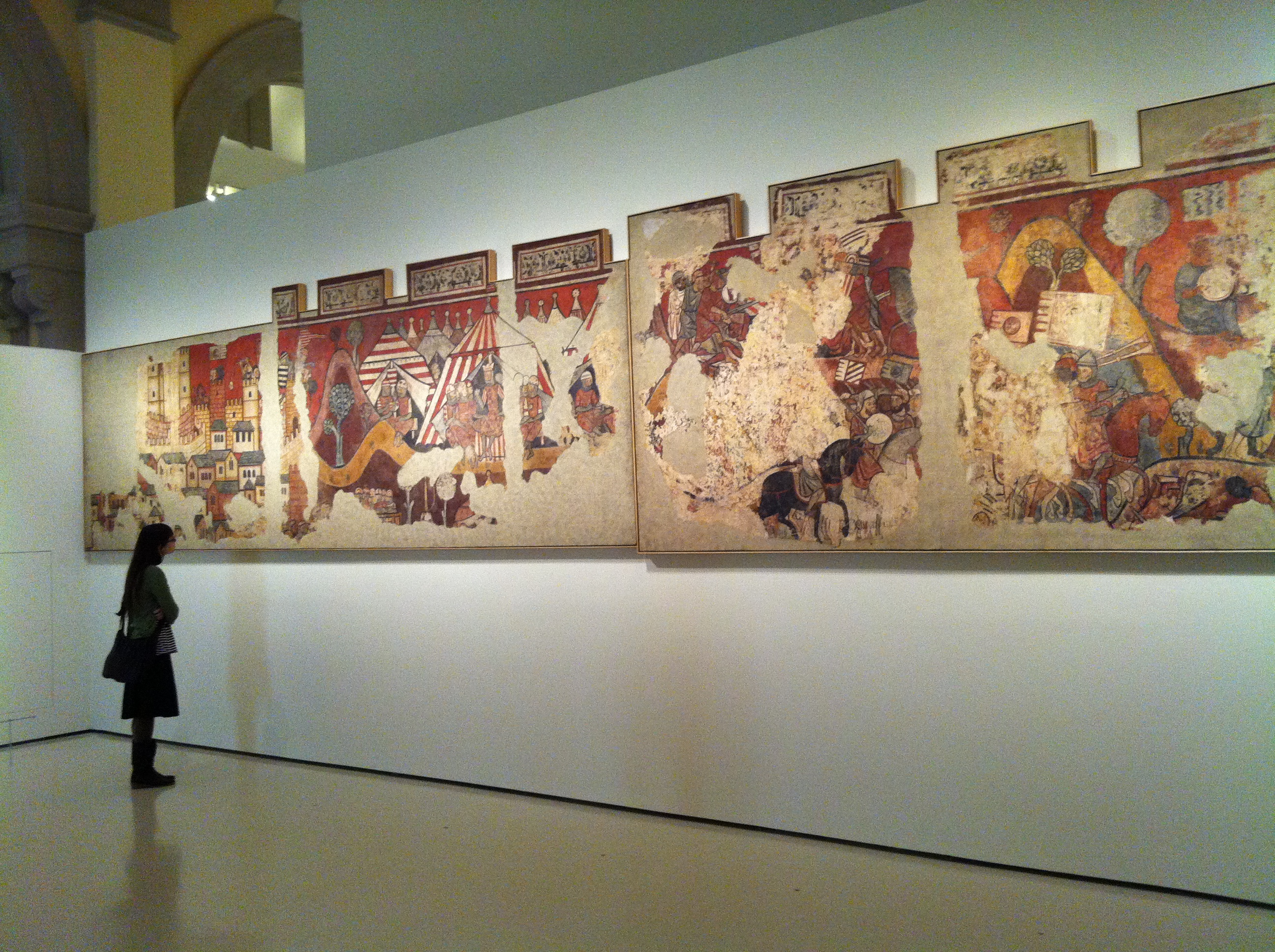 Interior rooms of Museu Nacional d'Art de Catalunya